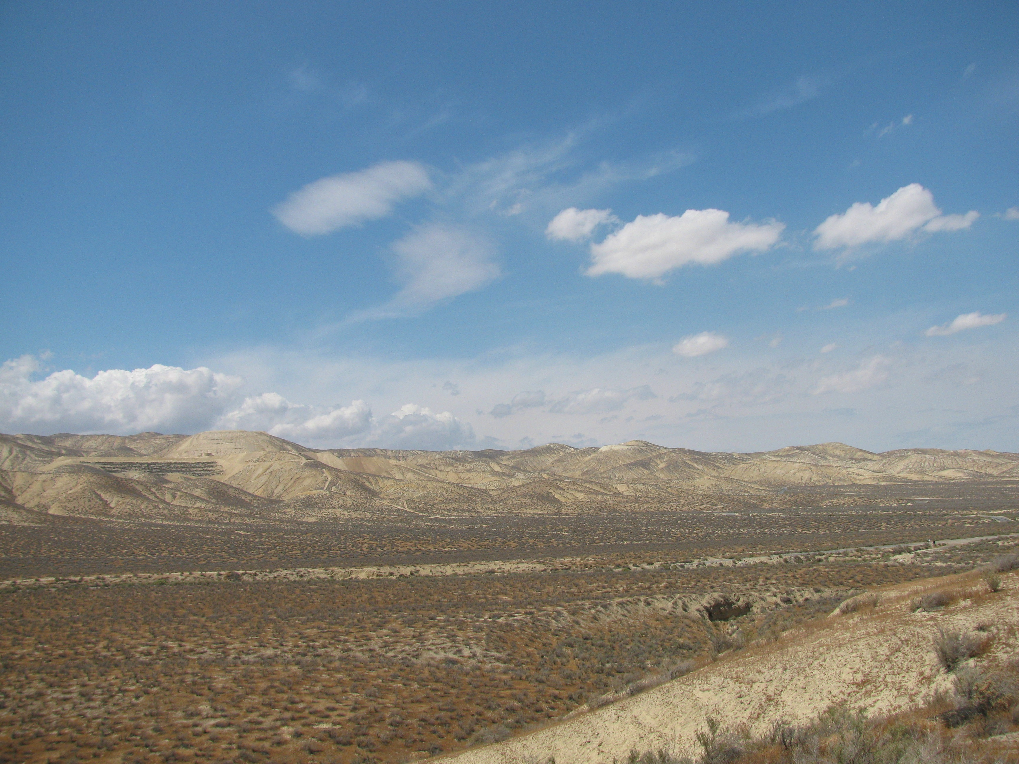 Southern extreme of the Temblor Range, from Elkhorn Grade Road near Maricopa; photo by self, May 3, 2009; GFDL